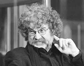 Hans-Dieter Schütt at the Willy-Brandt-Haus Berlin on October 25, 2005 while the presentation of his book "Ich seh doch, was hier los ist"